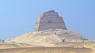 The pyramid of Sneferu at Meidum